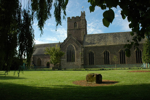 St Mary's Priory Church, Abergavenny Pictured here in early morning spring sunshine St Mary's Priory Church in Abergavenny was originally a Benedictine priory founded in the late 11th century by Hamelin de Ballon, Lord of Abergavenny. During the Dissolution of the monasteries the people of Abergavenny gained control of the church. Though dating from the late 11th century what we see today is from the early 14th century.